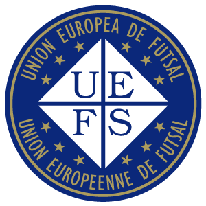 Logo of the European Union of Futsal (UEFS)